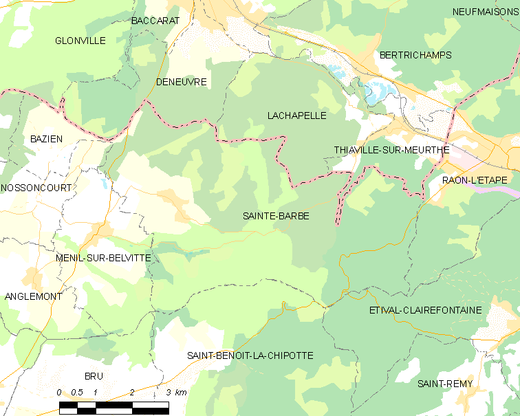 Map of French municipality Sainte-Barbe